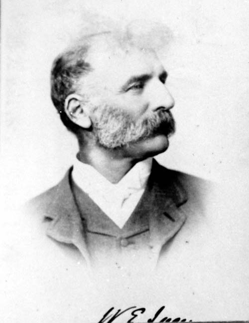 William Edward Ivey, November 1886